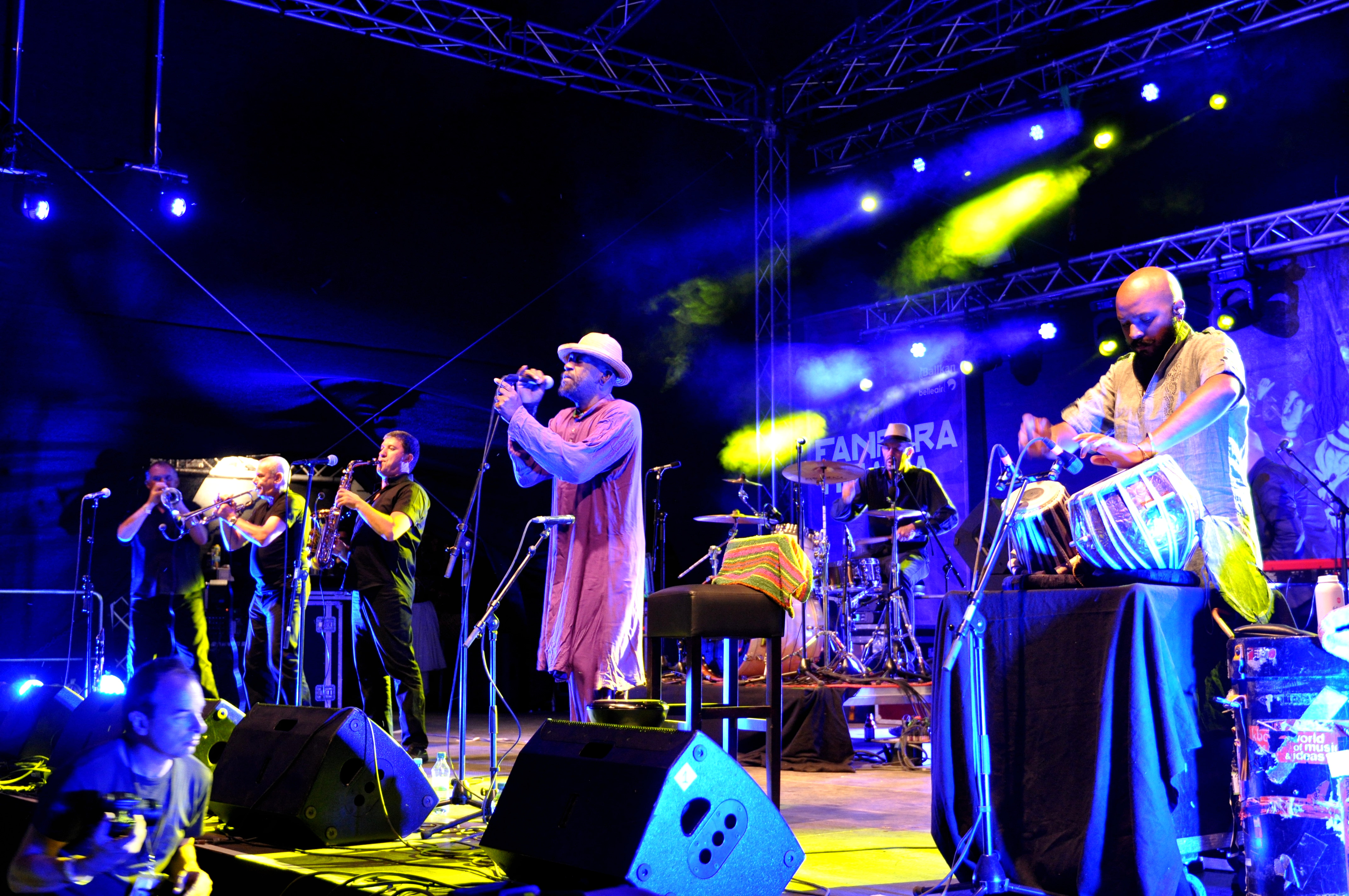 Fanfare Tirana meets Transglobal Underground (ALB/GBR), World Music Festival Horizonte 2015, Ehrenbreitstein Fortress, Koblenz, Rhineland-Palatinate, Germany Festivalsommer This photo was created with the support of donations to Wikimedia Deutschland in the context of the CPB project "Festival Summer".